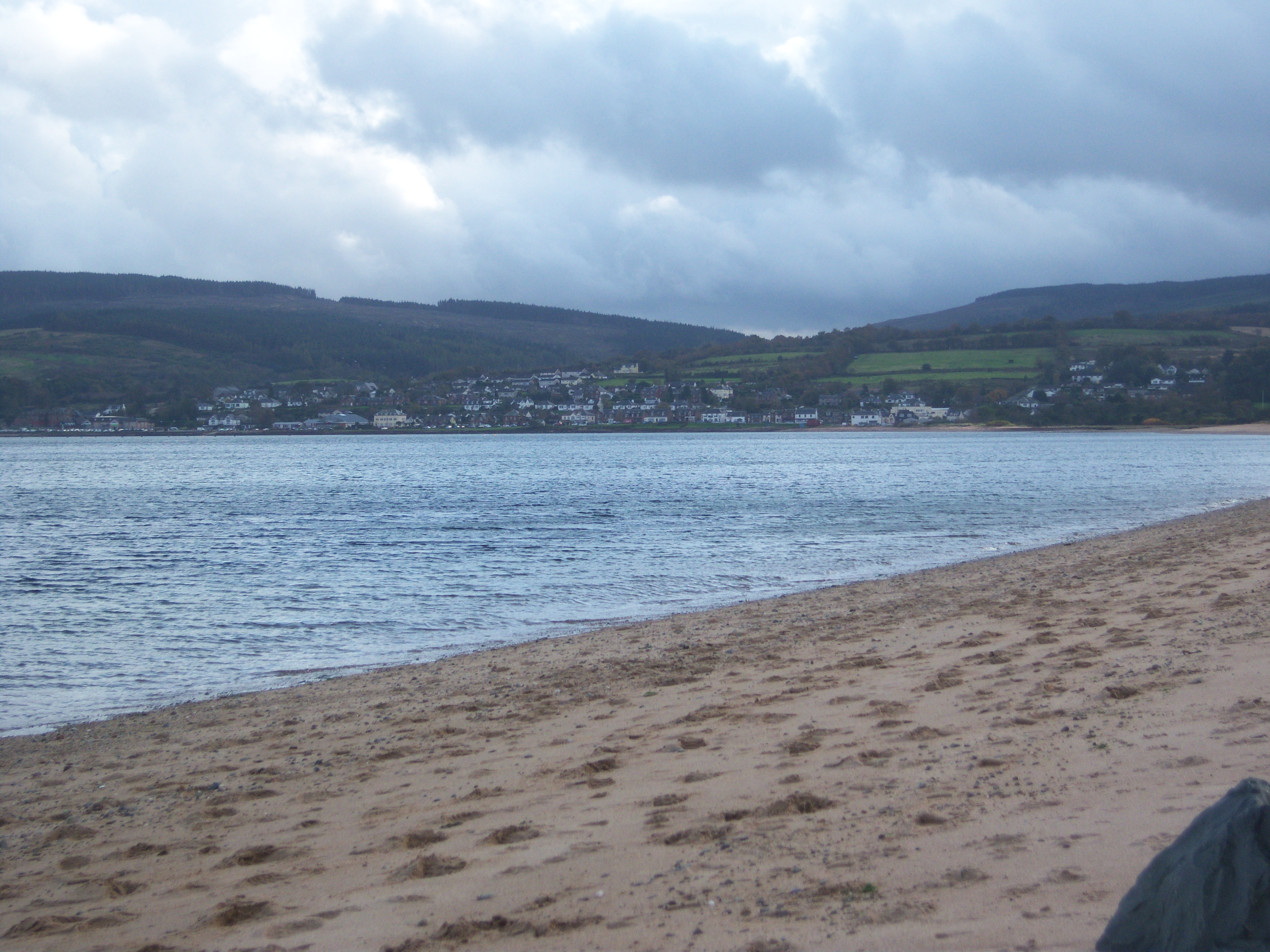 Brodick on Isle of Arran.